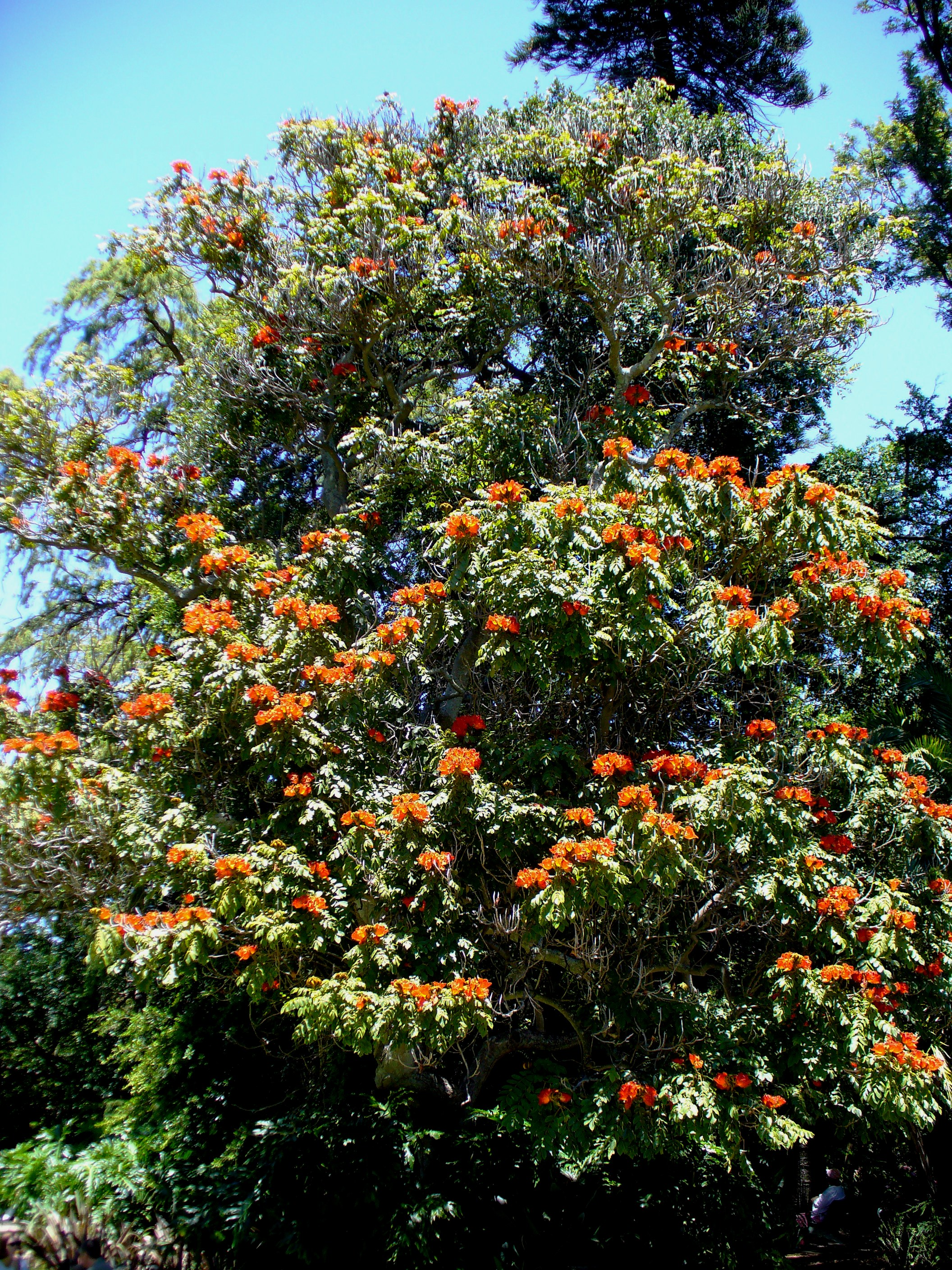 African Flame Tree